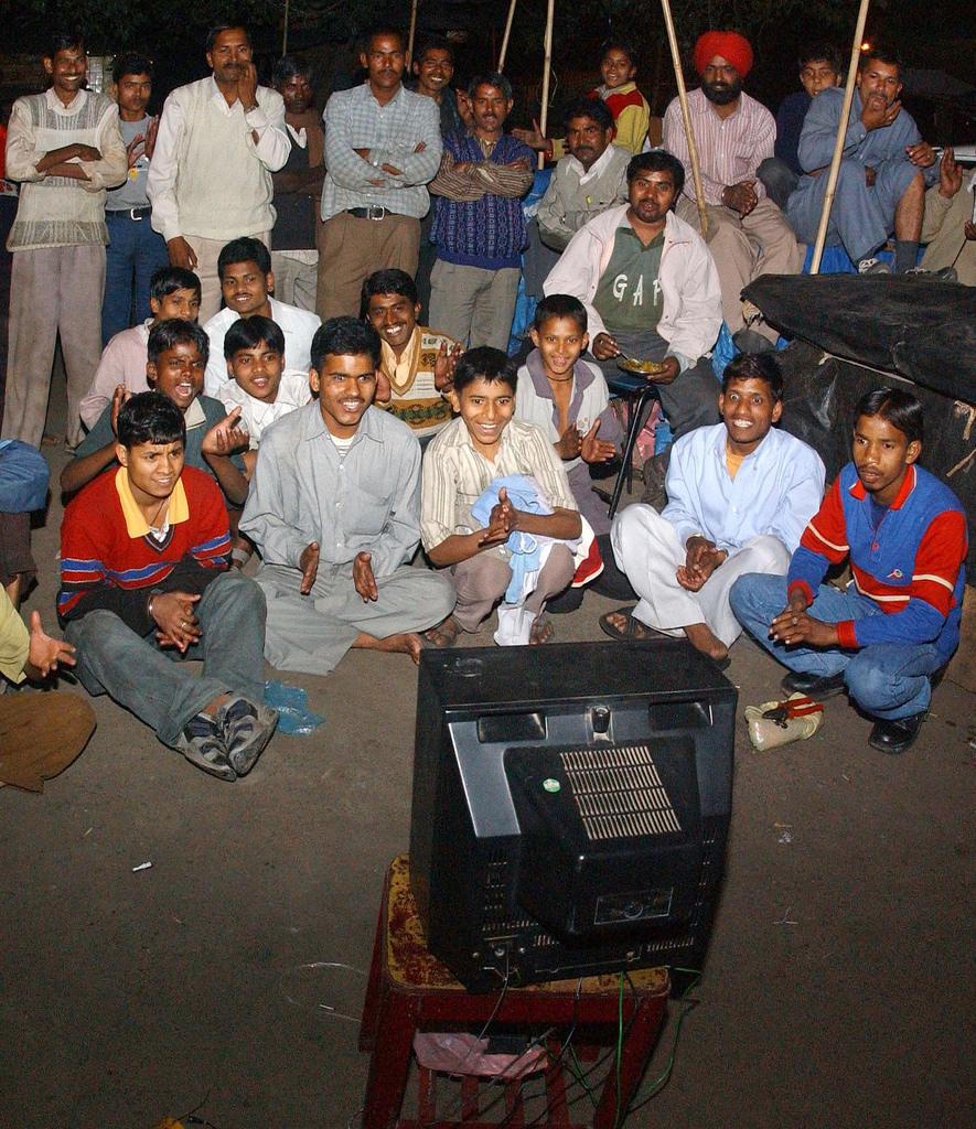 Original caption- "The Greatest Crowd Puller" Television is the greatest and fastest media of information these days. Wherever and whenever it is on, people stick to its screen to know latest about the world. In the picture people are seen watching and enjoying a live Cricket match, on a small television, setup specially on a roadside -just to watch the match between India and Pakistan.